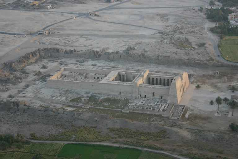 Medinet Habu from the air